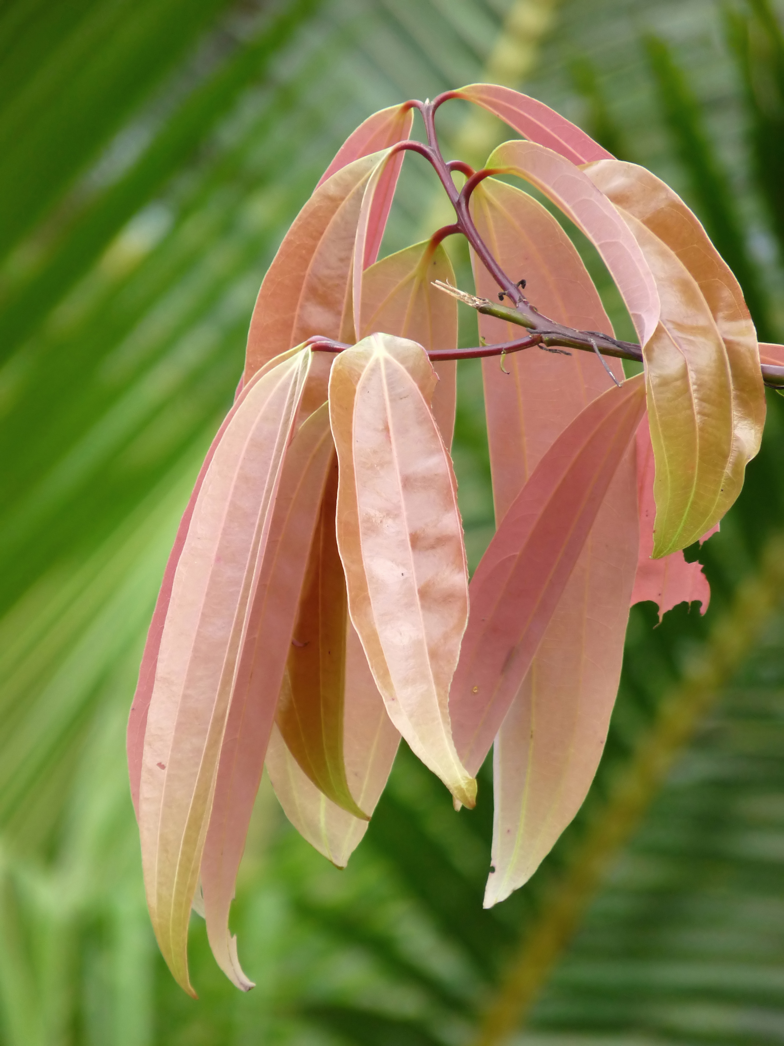 Cinnamomum malabatrum, Malabathrum, is a tree within the Lauraceae family which is endemic to southern Western Ghats. It is thought to have been one of the major sources of the medicinal plant leaves known in classic and medieval times as Malabathrum (or Malobathrum).